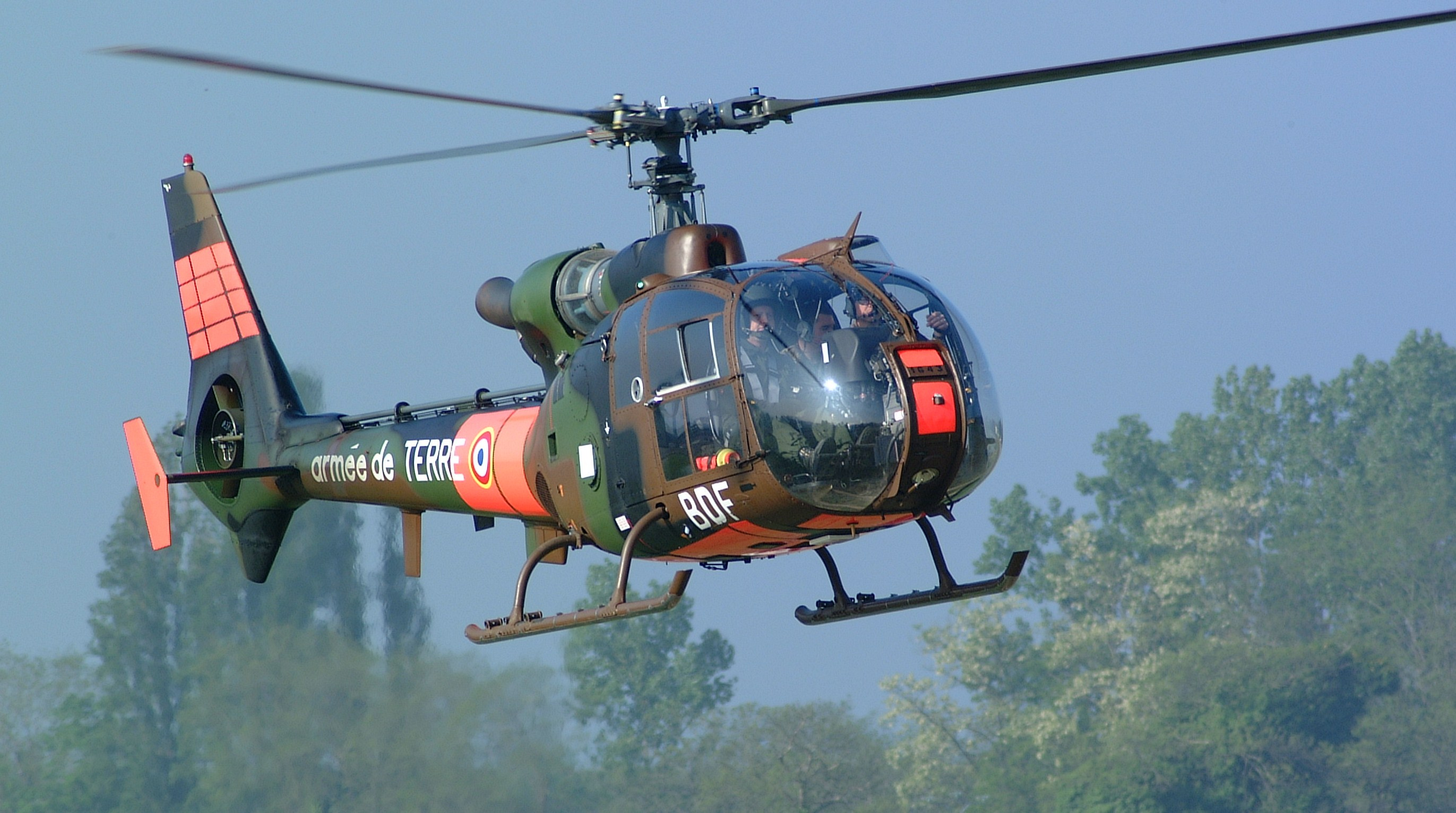 The Gazelle is to be replaced by civilian operated Eurocopters at Dax.